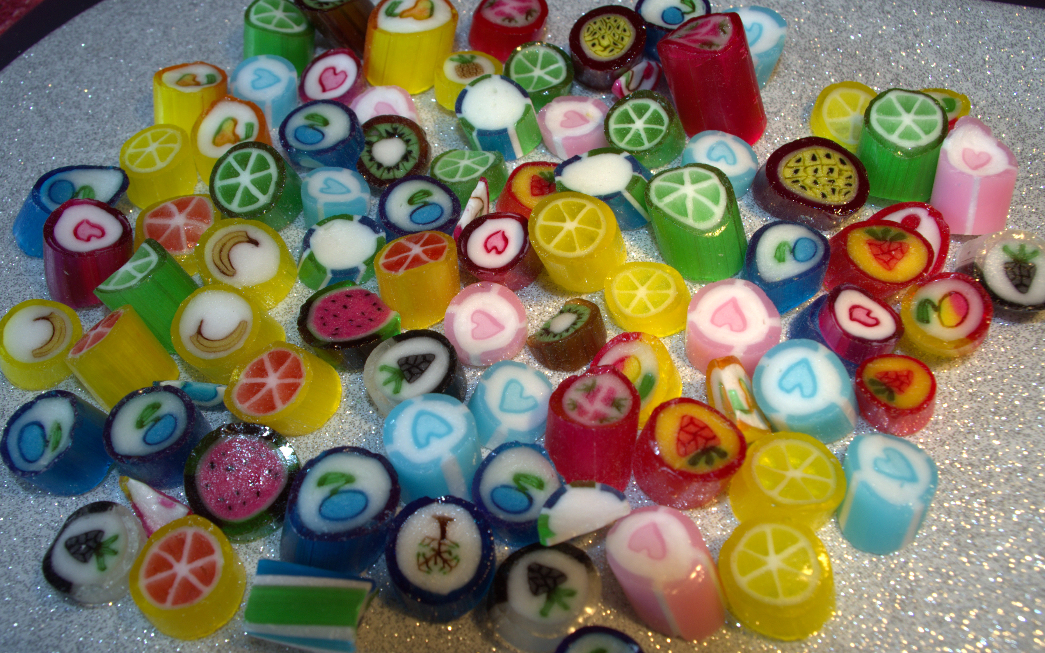 Hand-made candies, caramel candies